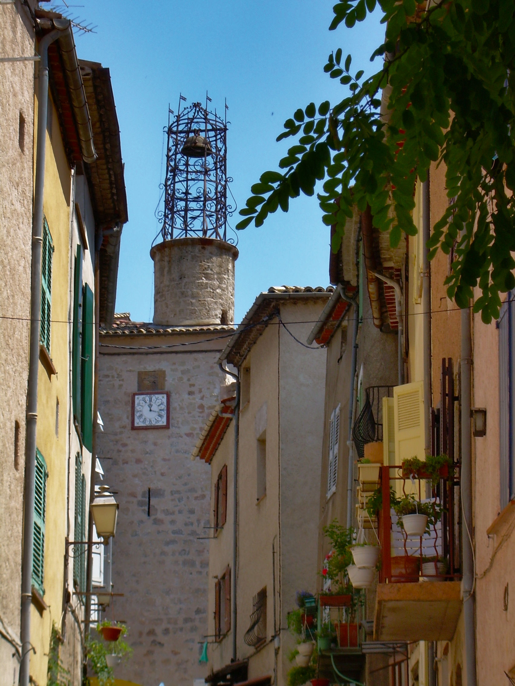 Clock tower, Les Arcs sur Argens, France